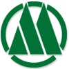 Mihara Kochi chapter